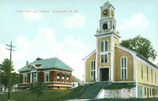 Town Hall and Public Library, Whitefield, New Hampshire